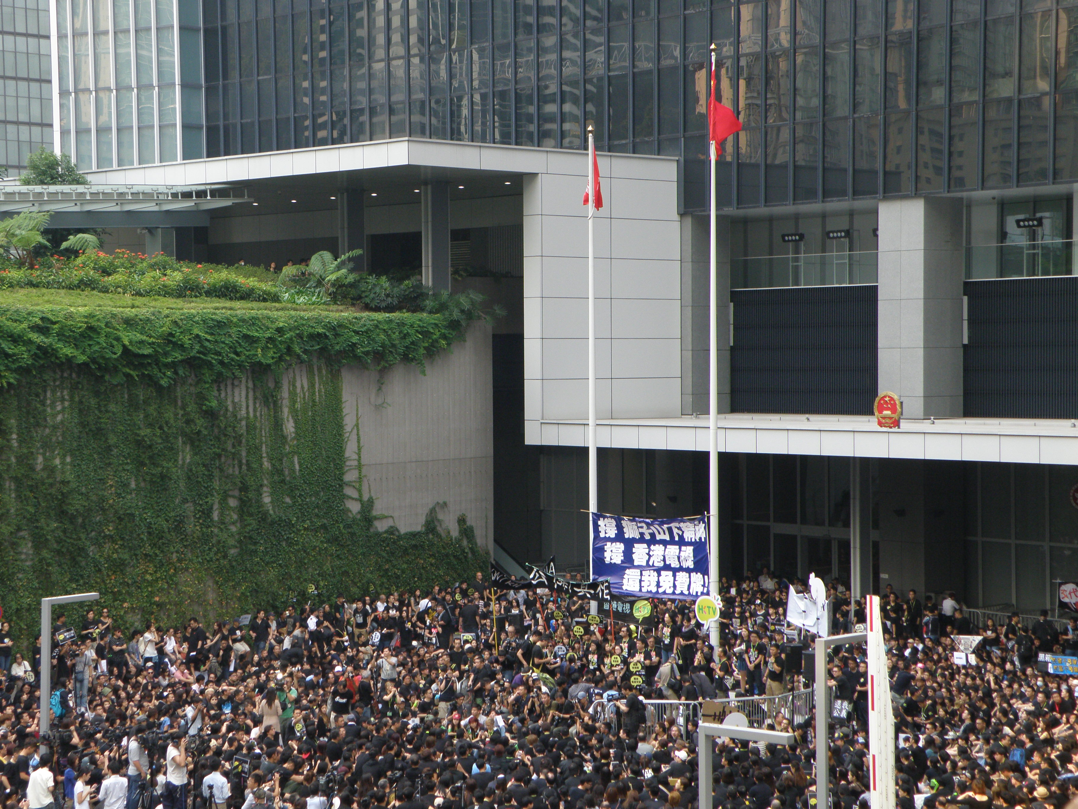 Protests against the HKSAR government's decision to refuse a free-to-air broadcast licence to Hong Kong Television.